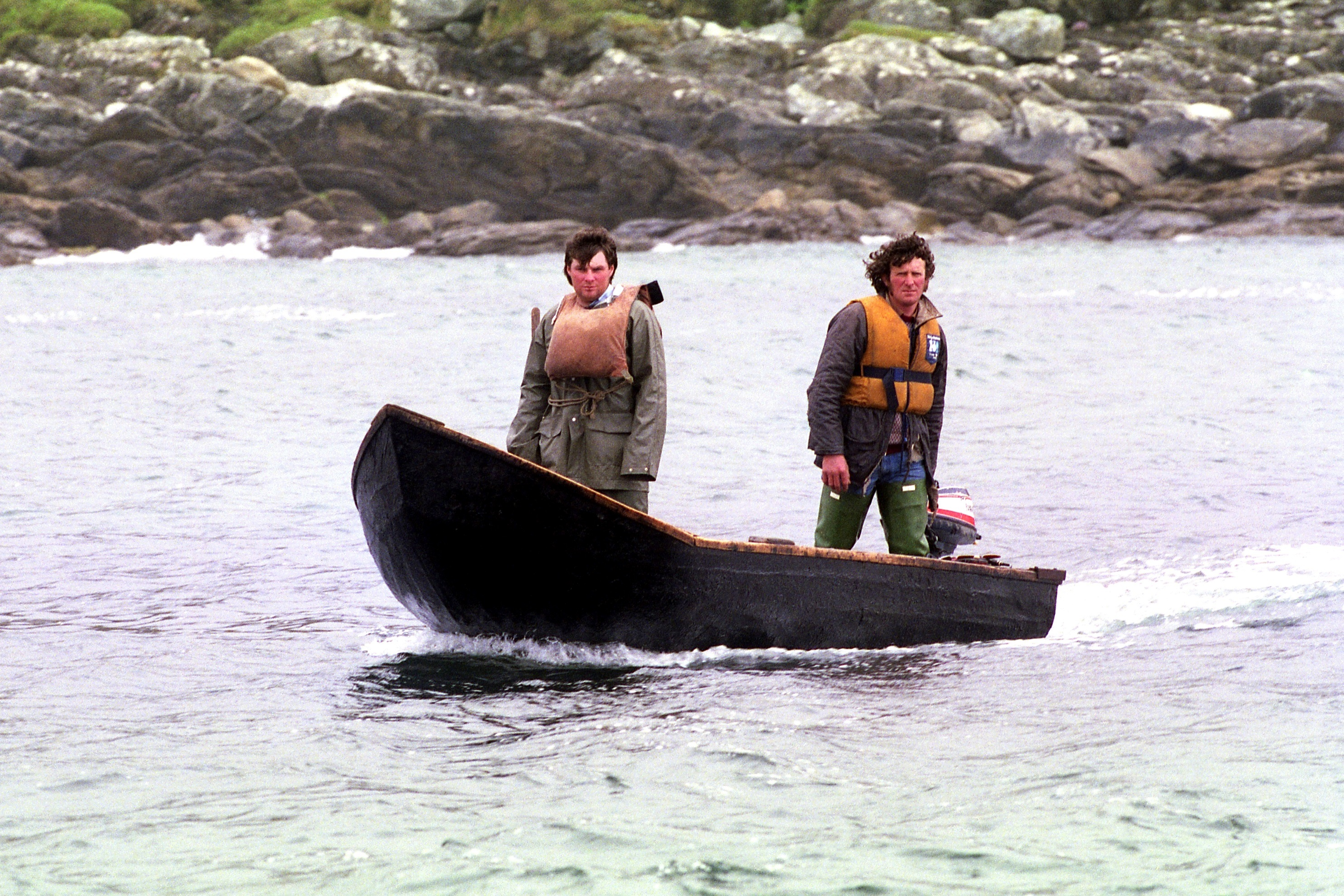 Fishermen in a currach with outboard motor on their way back to the harbour at the Irish westcoast pictured in the summer of 1986.